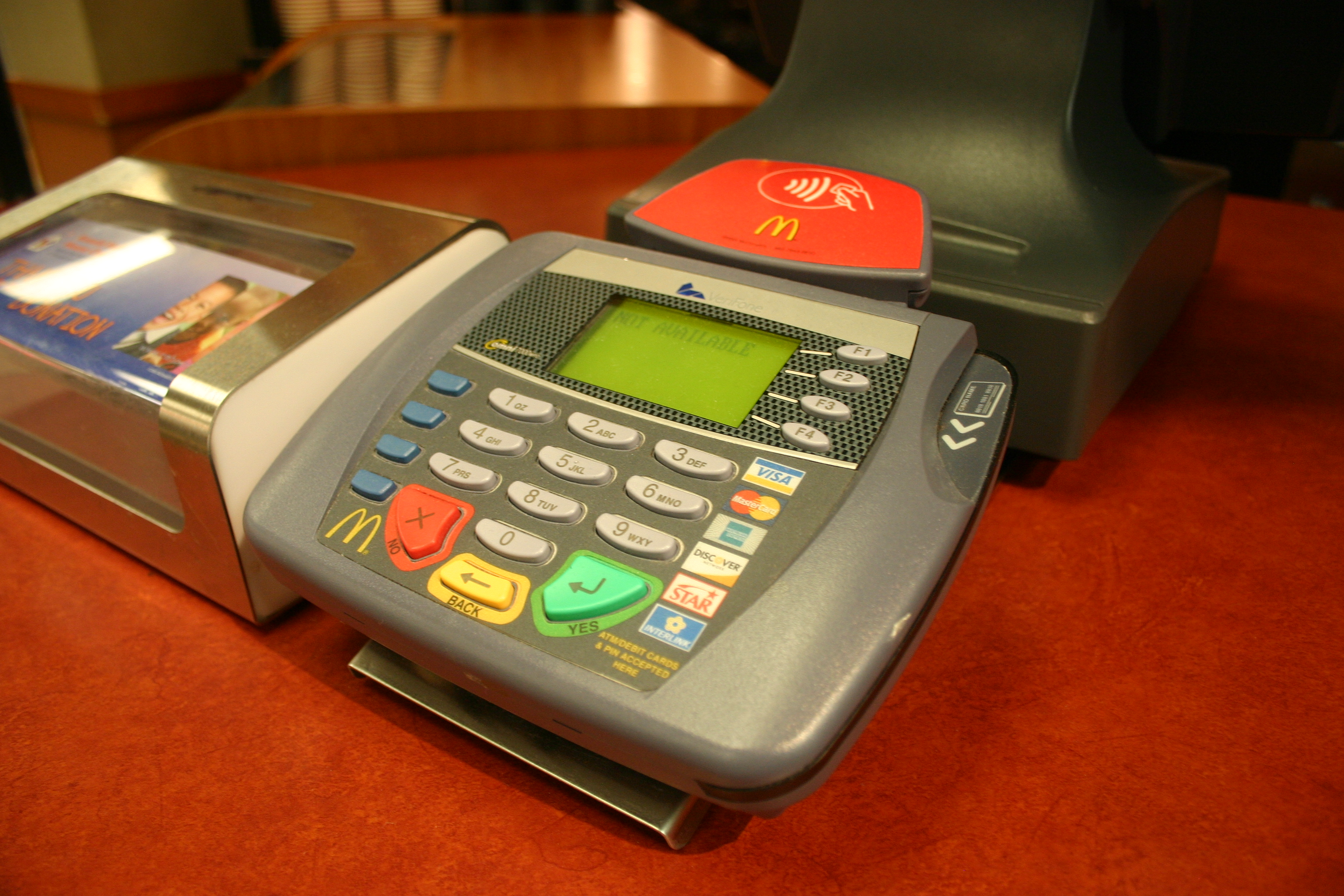 Photo of Debit Card swipe machine from Rest Stop in Framingham, MA by Brian Katt.